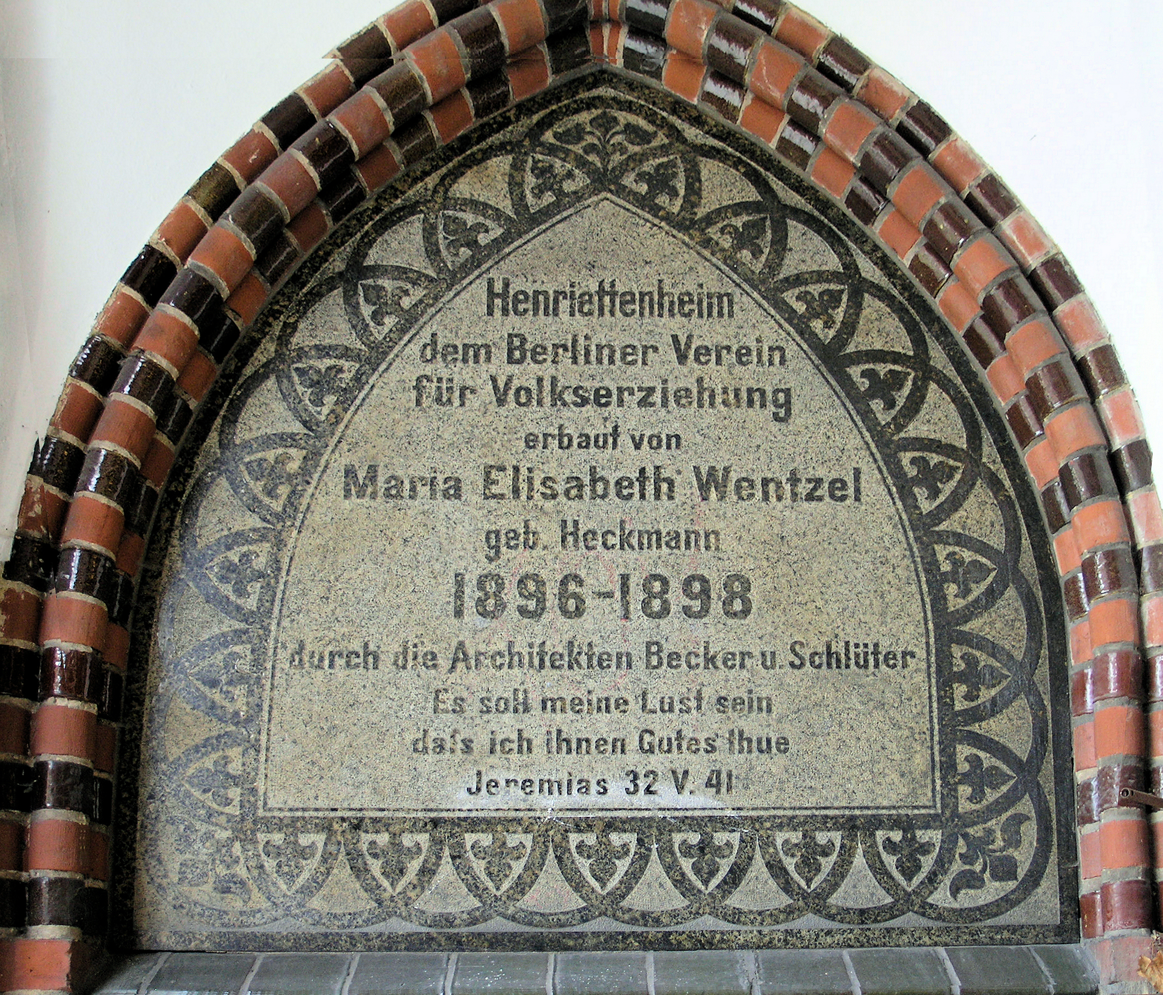 Memorial for the founder Maria Elisabeth Wentzel and the architects Albrecht Becker und Emil Schlüter in the Pestalozzi-Fröbel-Haus, Karl-Schrader-Straße 7 at Berlin-Schöneberg, Germany Koordinate:52°29′29″N 13°21′7″E / 52.49139°N 13.35194°E